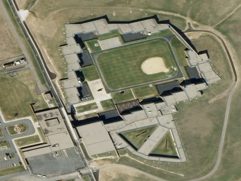 Aerial view of Minnesota Correctional Facility - Oak Park Heights